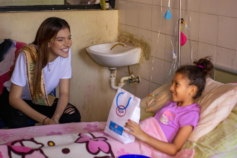 Valentina Figuera along with Ni Una Sonrisam Menos Foundation visited Rafael Tobías Guevara children's hospital in Barcelona Anzoátegui state to make some donations.